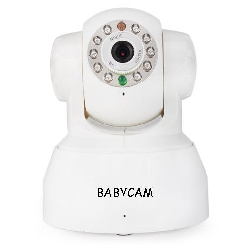 This is a picture of the best baby cam monitor out there now. It uses your network to make it viewable anywhere in the world with all your devices; smartphones, ipads/tablets, computers.